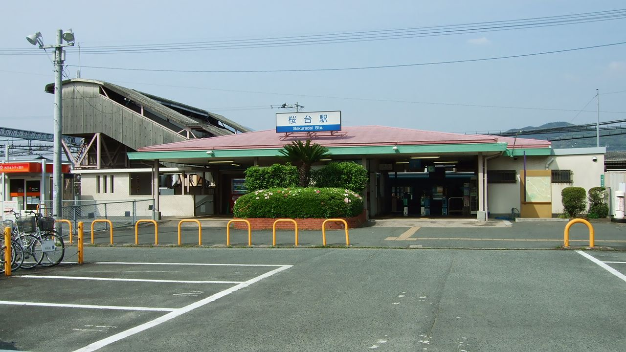 Sakuradai Station, Nishitetsu Tenjin Omuta Line.